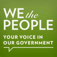 Logo for the We The People section of the website. The section of the White House website for directly petitioning the administration for a response concerning politically issues.